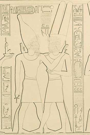 Drawing of a relief depicting pharaoh Takelot II (left) with the god Amun-Ra (right). From Karnak, Great Temple Forecourt, angle C. Reign of Takelot II, 23rd Dynasty, Third Intermediate Period.